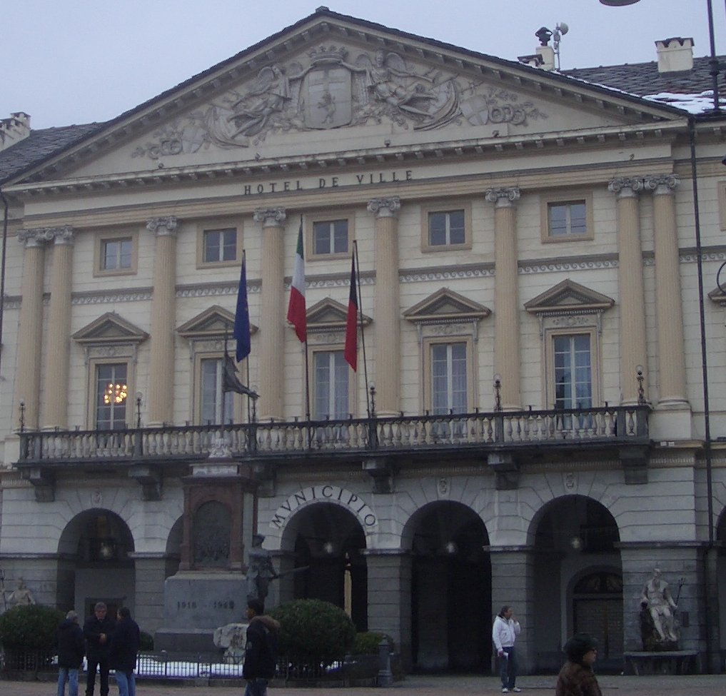 Hotel de Ville, (Town Hall), Aosta, Italy